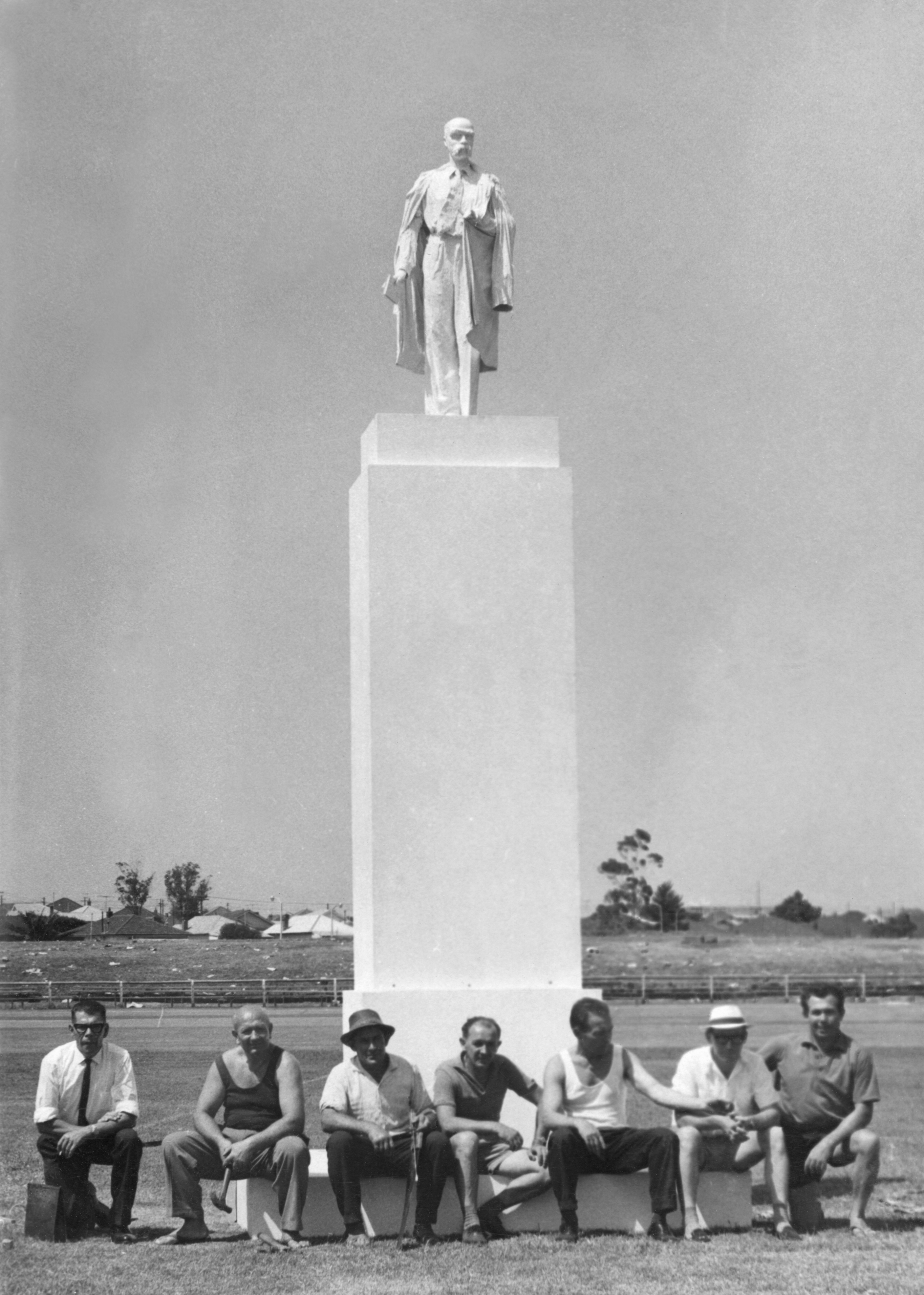 Ukrainian artists (who were to eventually be members of the Ukrainian Artists Society of Australia pose in front of a temporary statue of the great Ukrainian poet and freedom-fighter Taras Shevchenko, at Lidcombe Oval in Sydney, Australia in January 1964. This statue and temporary monument was part of the Ukrainian-Australian community's celebration of 150 years from the birth date of Shevchenko. Sitting from left to right are artists Theodor Nalukowy, Serhij Cymbaluk, Volodymyr Sawchak, Mykola Swiderskyj, Stephan Chwyla, Peter Kravchenko and Theodosij Robitnytskyj. The design and execution of the statue of Shevchenko was by Peter Kravchenko, with assistance from Stephan Chwyla.